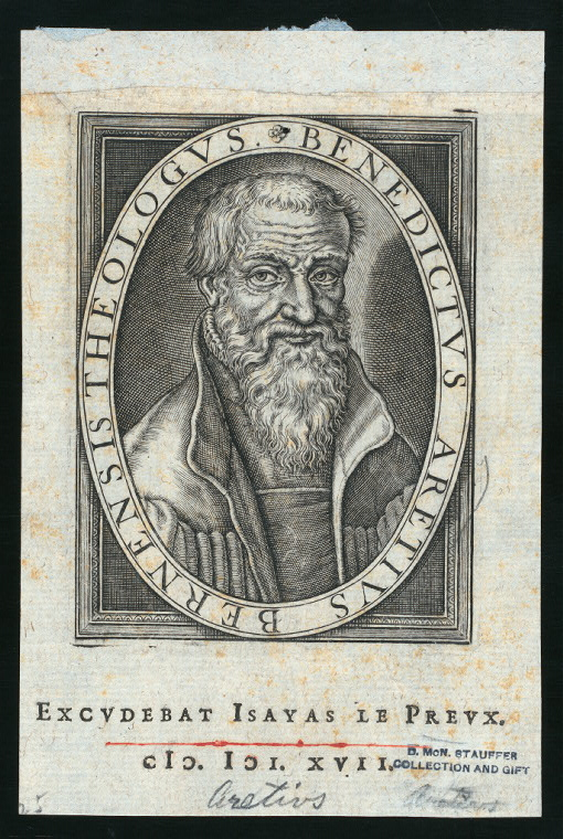 Portrait of Benedictus Aretius